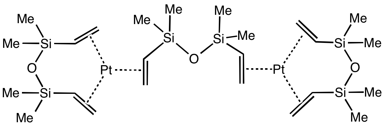 structure of Kartsted's Catalysts